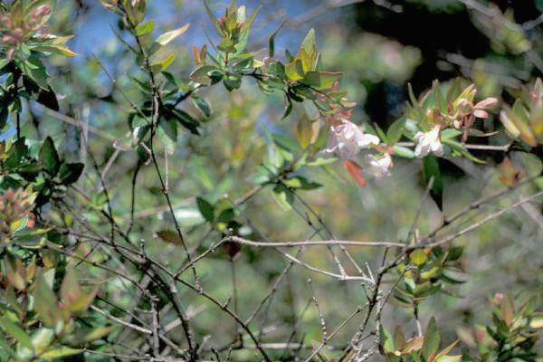 Abelia grandiflora1.jpg (Glossy Abelia) Downloaded from